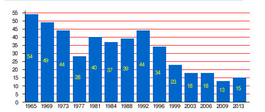 Election results of Israeli Labour Party.